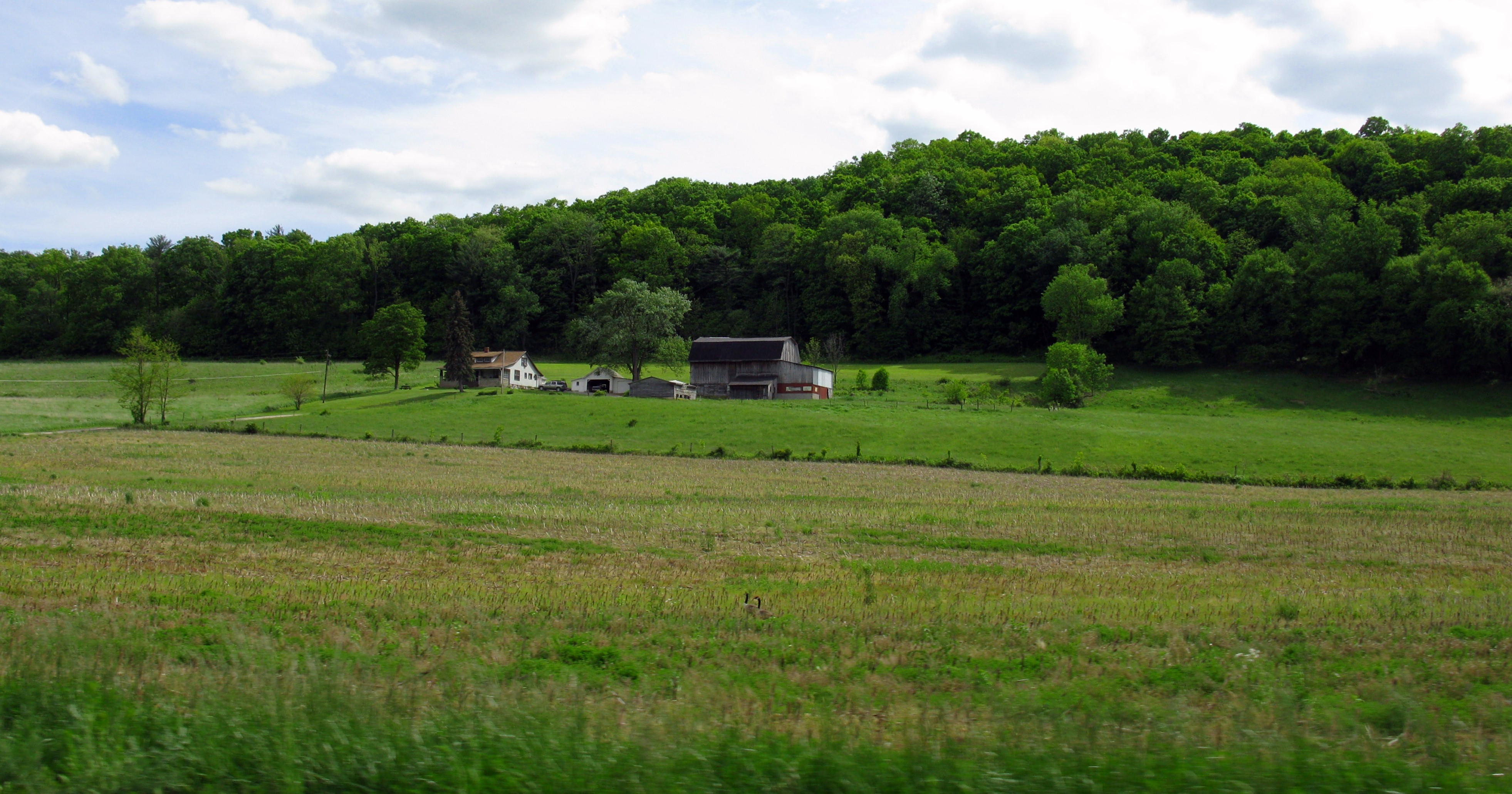 View from SR 26, Liberty Township, Pennsylvania